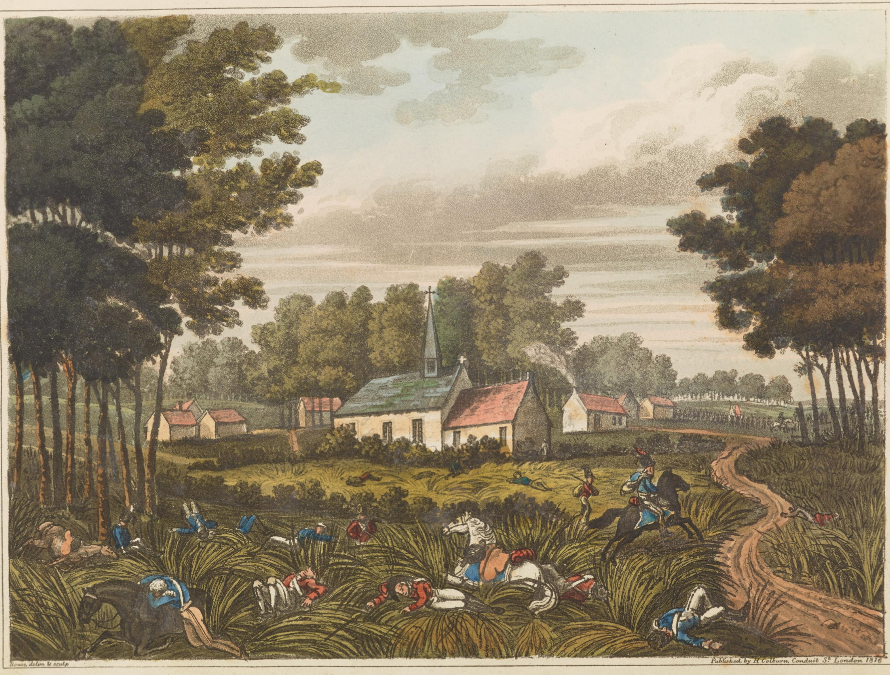 " Chateau of Frischermont. It was on this spot, that Sir T. Picton received his death. Here, also, through the woods, the Prussians under the command of Bulow came up, towards the close of the battle".